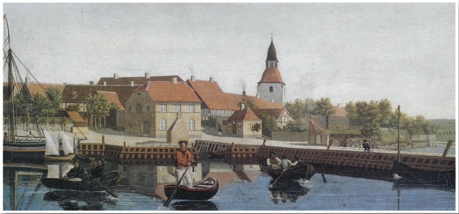 The harbour of the Danish town Faaborg, showing among other buildings, the small brick pitch house close to the water in the center of the painting